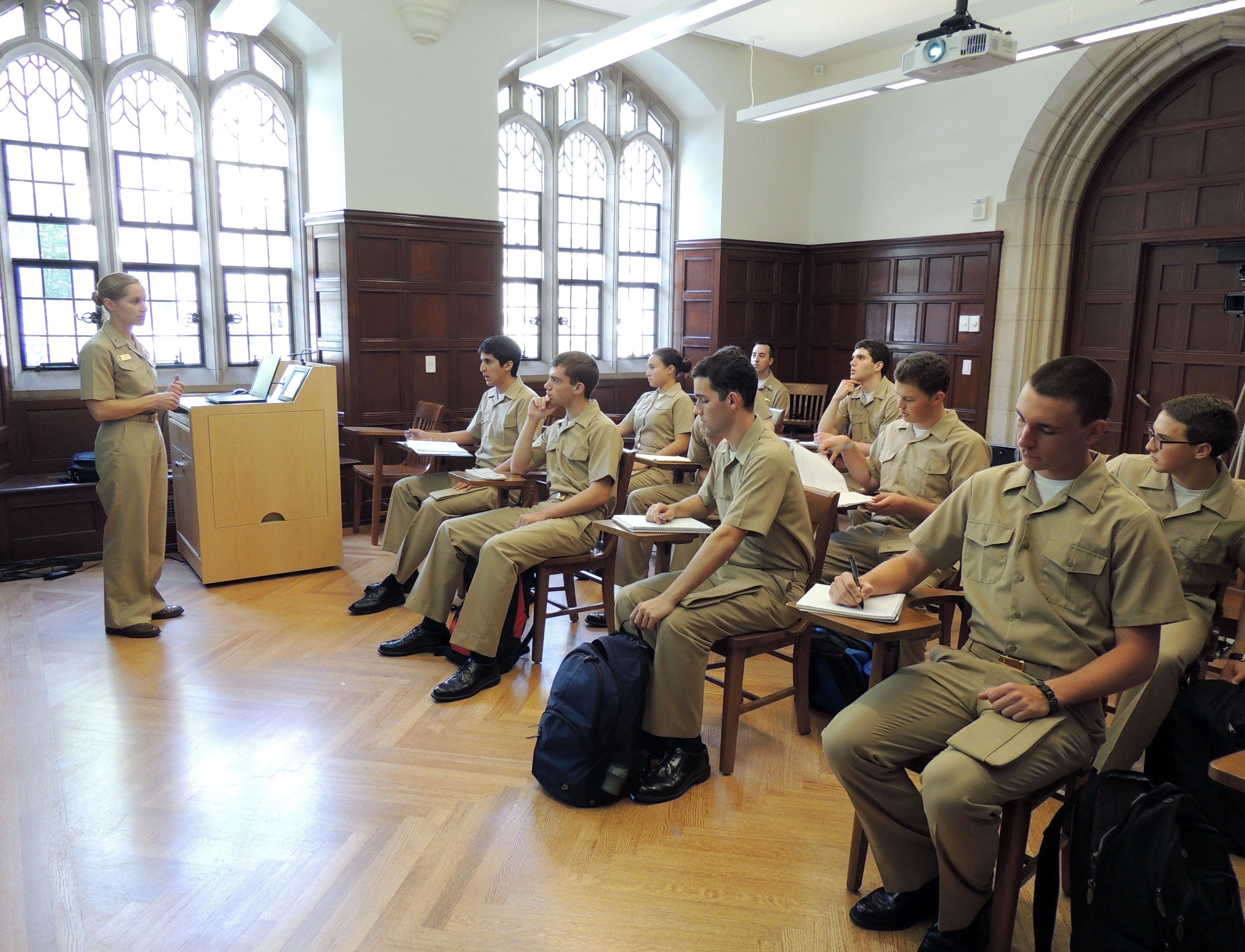 NEW HAVEN, Conn. (Sept. 20, 2012) Lt. Molly Crabbe, the naval science instructor at Yale University, teaches a course to Yale University Naval ROTC unit midshipmen. Yale was one of the first universities to have an ROTC unit beginning in 1926. The university has re-established an NROTC presence on the university campus for the first time since the 1970’s. (U.S. Navy photo by Mike F. Miller/Released) 120920-N-FO977-353